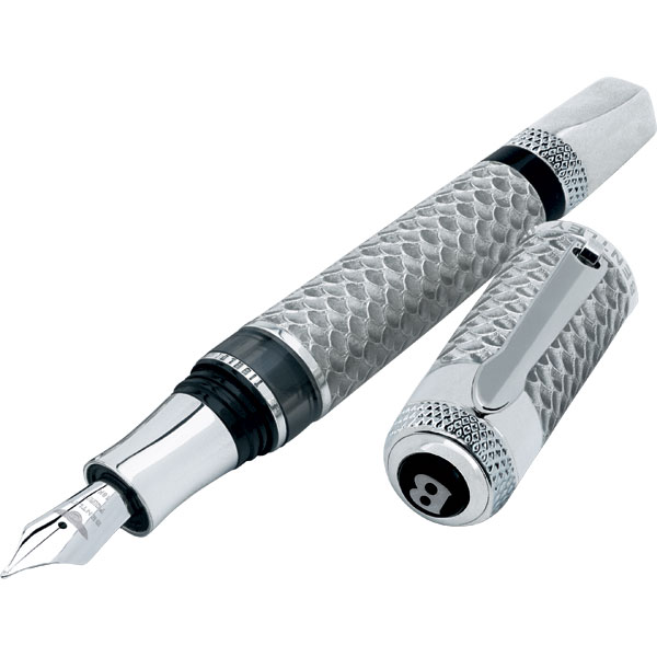 Tibaldi for Bentley pen